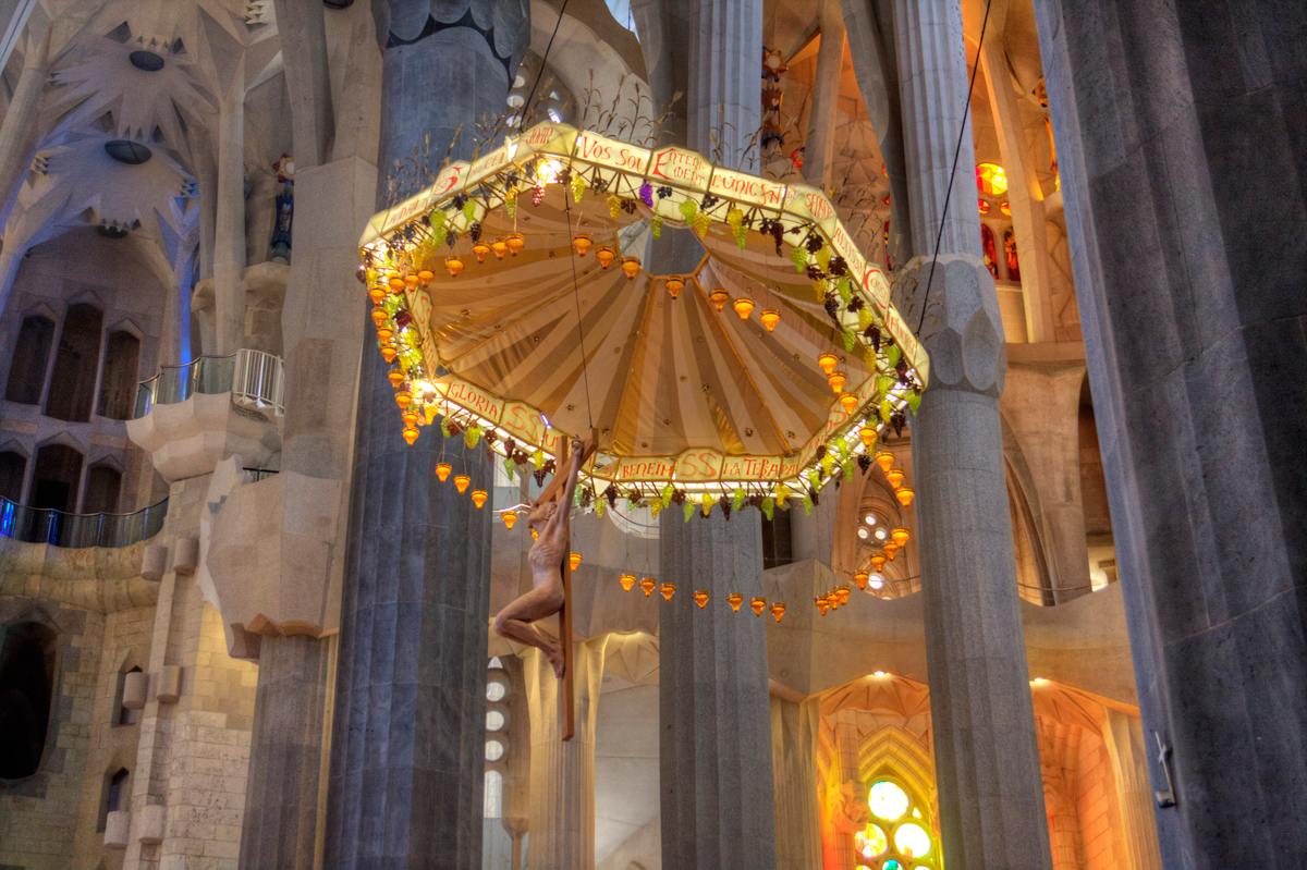 element oświetlenia